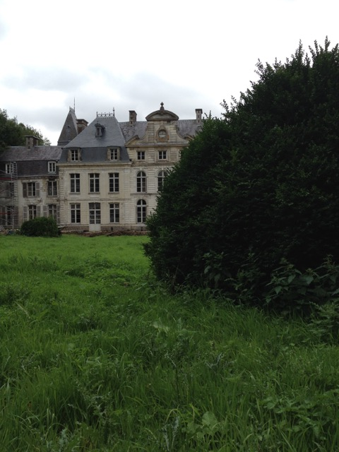 Humieres Castle